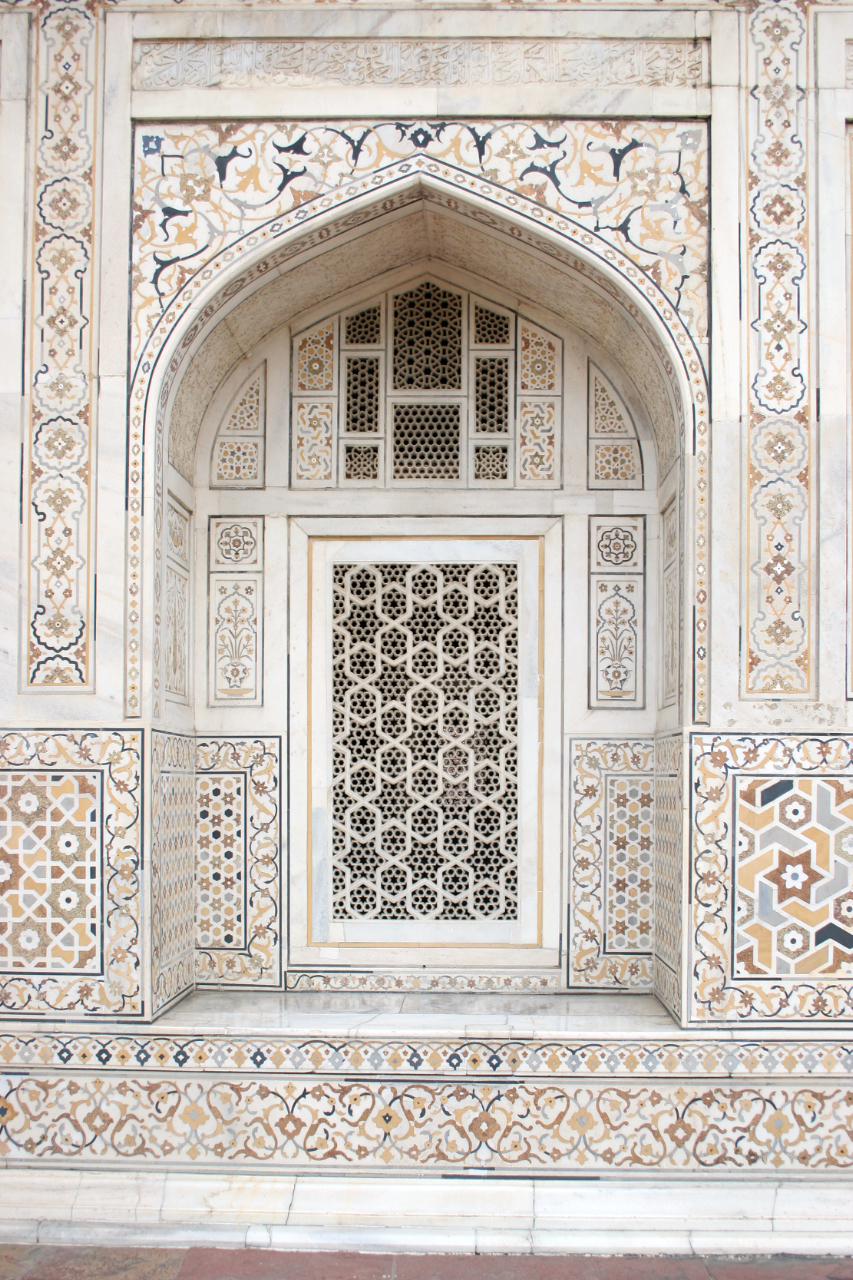 Iwan at Itmad-Ud-Daulah's Tomb (Baby Taj).